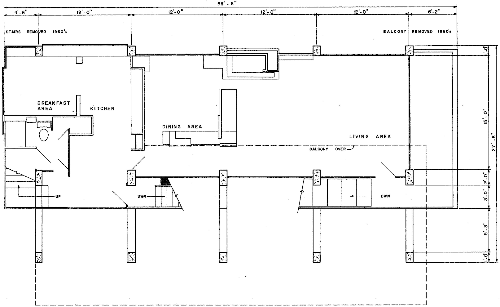 First floor plan of the Lovell Beach House — by architect Rudolf Schindler. On the National Register of Historic Places in Southern California. Image: HABS—Historic American Buildings Survey of California.